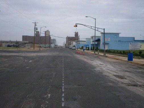 The barren and deserted Ocean Avenue in Asbury Park, circa 2006.